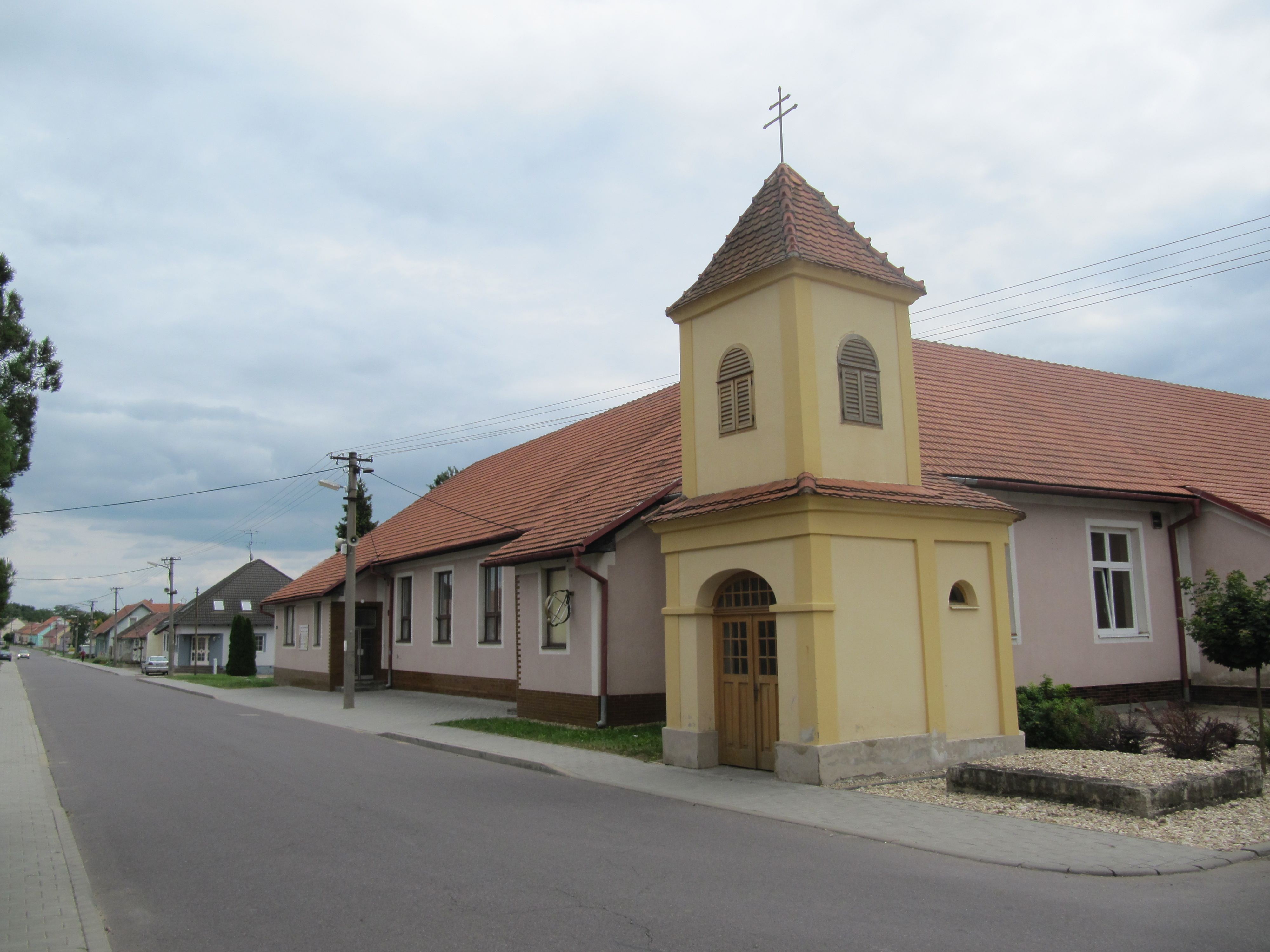 Šanov in Znojmo District, Czech Republic. Chapel and main street.